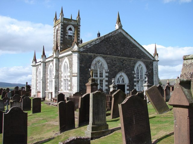 Dunscore Church & Churchyard A notable Heritors’ Gothic towered church (1823-4) retaining a largely unaltered interior; memorial plaque to the missionary Jane Haining, who died in Auschwitz. The churchyard contains the burial enclosure of the Griersons of Dalgonar and three war graves.